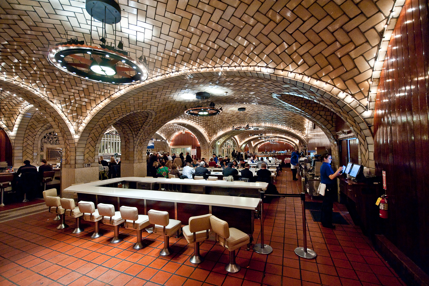 The oldest operating eating establishment in Grand Central Terminal.